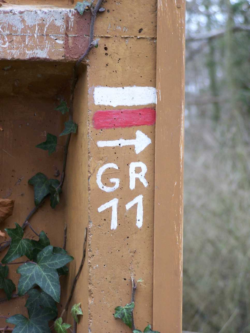 Blaze indicating the GR 11 hiking trail in Maincourt-sur-Yvette (Yvelines, France)